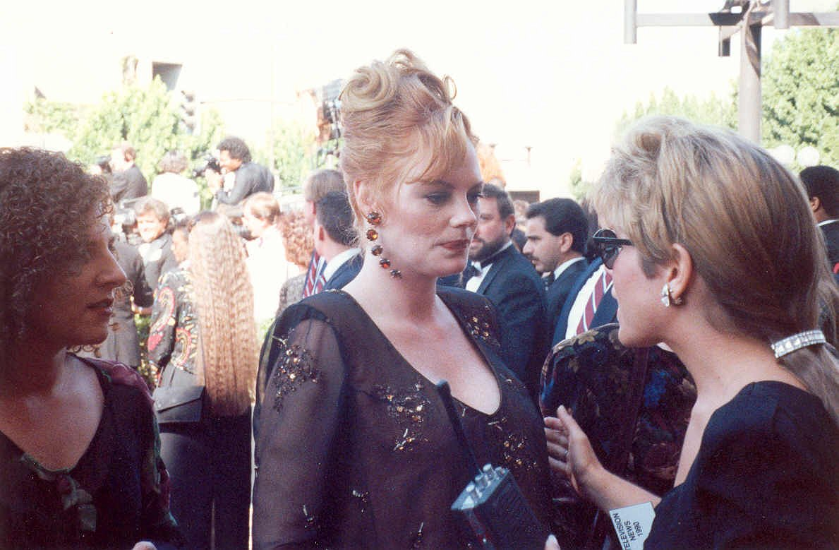 Marg Helgenberger on the red carpet at the 1990 Emmy Awards 9/16/90. At that time, Marg was pregnant with her son Hugh Howard Rosenberg Permission granted to copy, publish, broadcast or post but please credit "photo by Alan Light" if you can